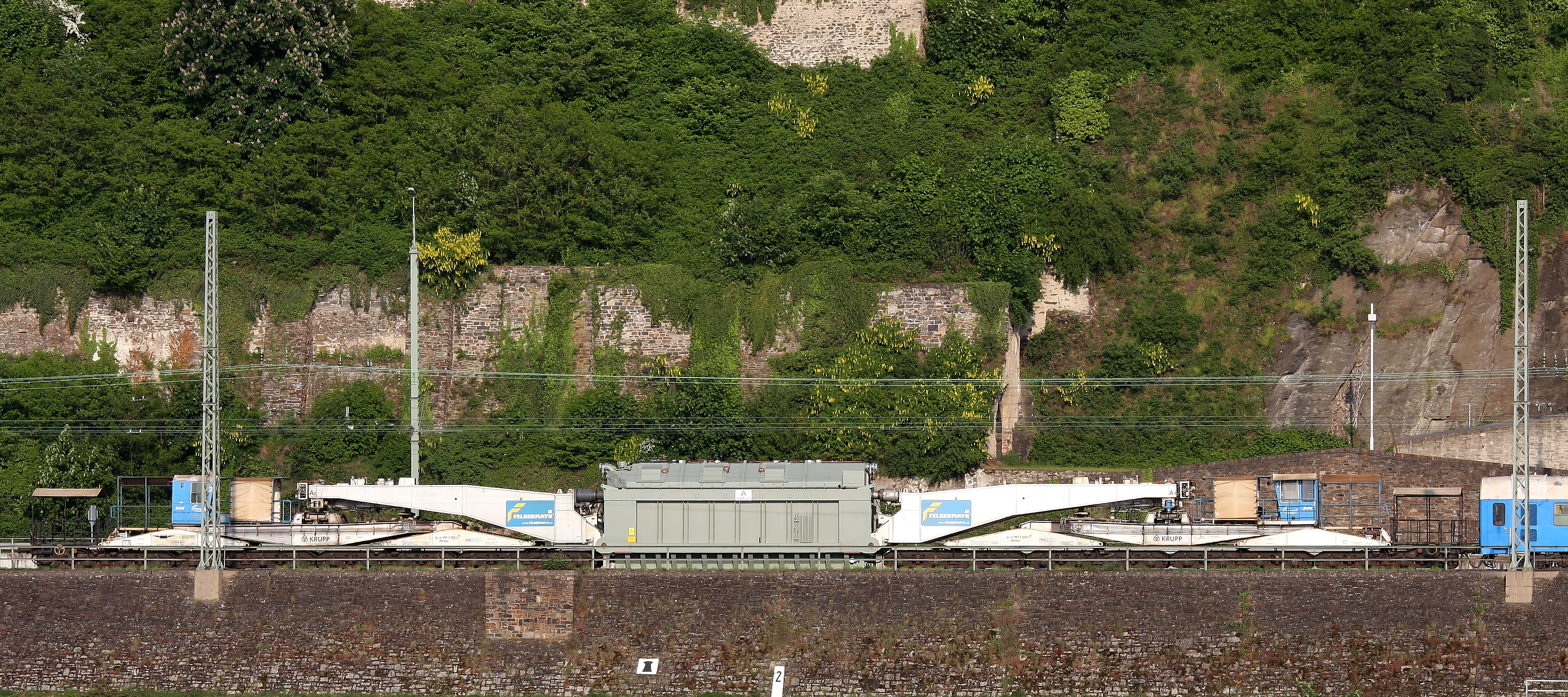 Schnabel car (owmer: Felbermayr Transport- und Hebetechnik GmbH & Co KG, Österreich) with transformer in Koblenz-Ehrenbreitstein station, Germany